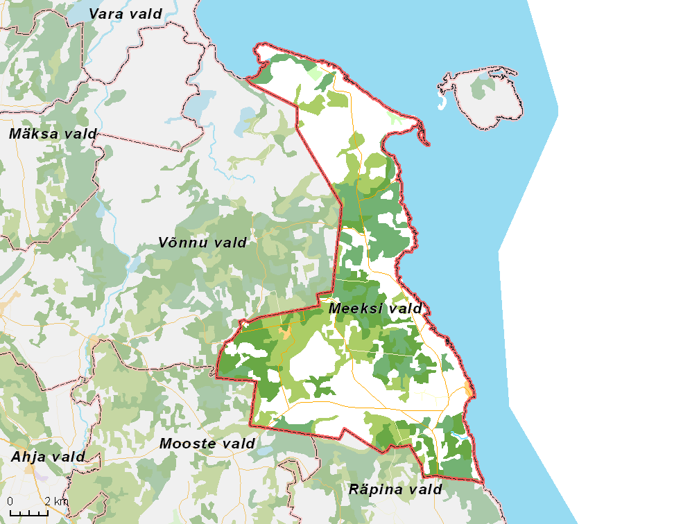 Map of municipality in Estonia